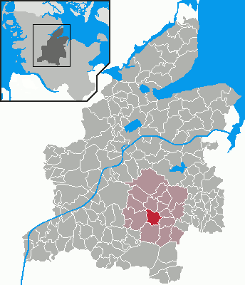 Locator maps of municipalities in Schleswig-Holstein - District Rendsburg-Eckernförde